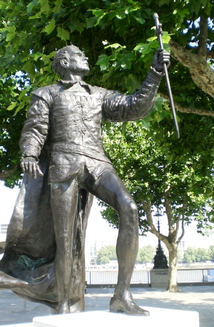 Laurence Olivier, South Bank SE1